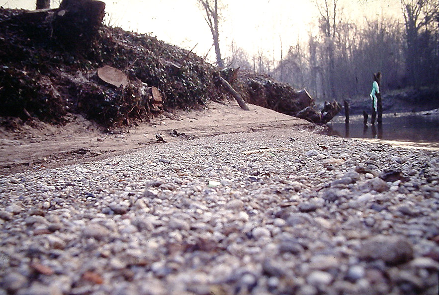 Edge of the Aa River , in the Wood of the former "Poudrerie nationale d'Esquerdes" ; at Esquerdes, in the Nord-Pas-de-Calais region (North of France)